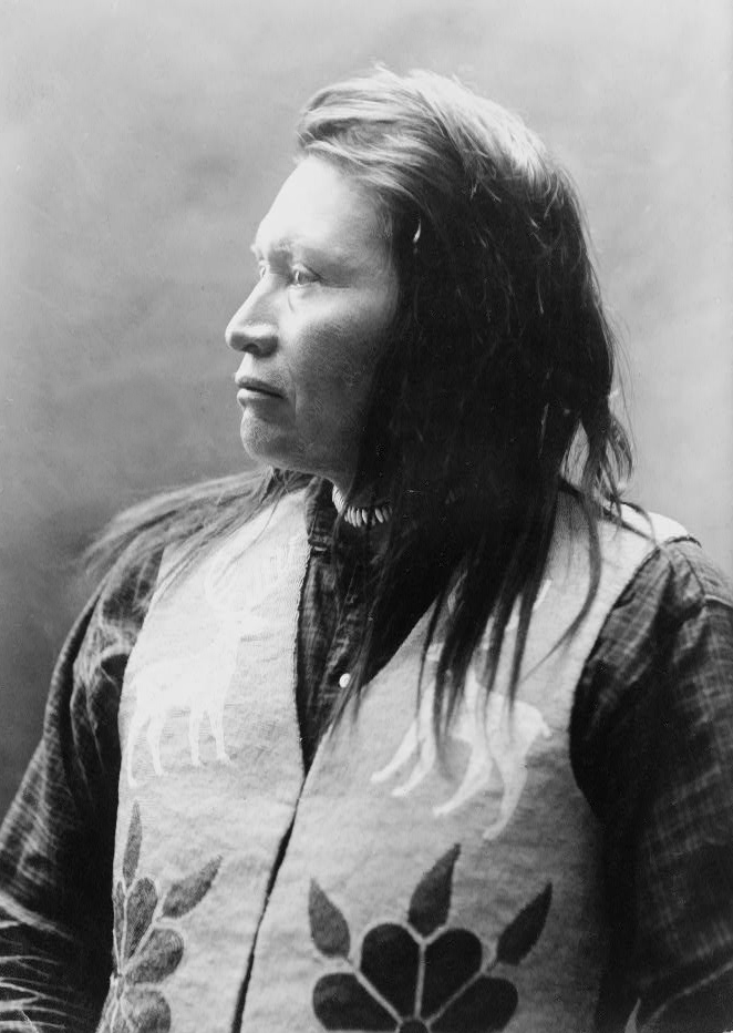 Photograph of Hemene Moxmox (Yellow Wolf), of the Nez Perce tribe of Native Americans. Yellow Wolf was a warrior during the Nez Perce War of 1877. He gave interviews and cooperated in the making of a book of his life, by Lucullus Virgil McWhorter. The image was copyrighted 1909 by McWhorter.